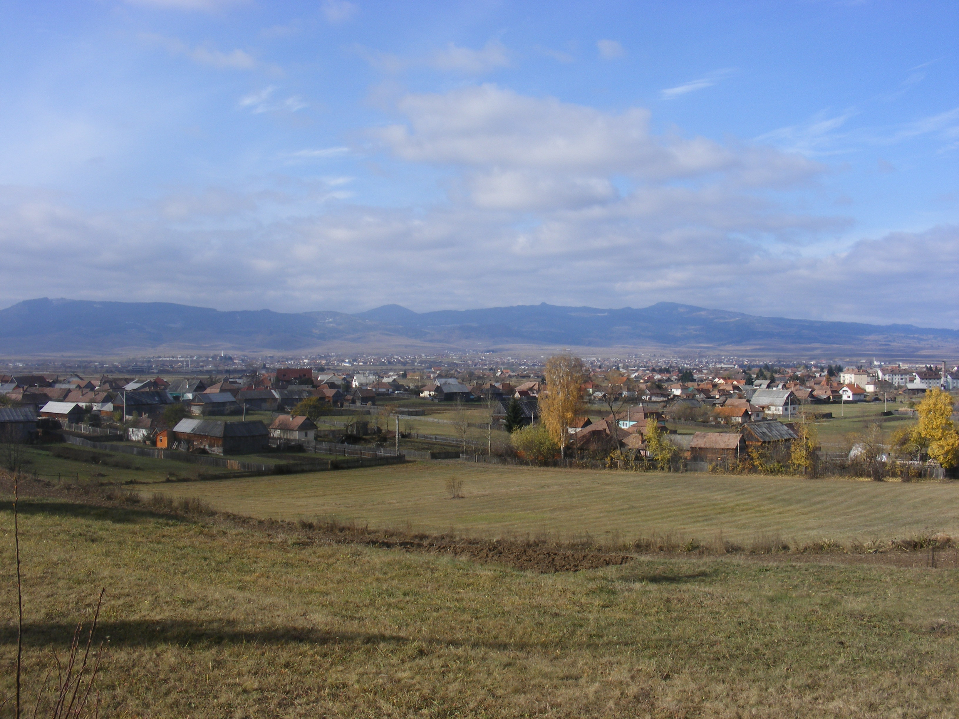 The Gyergyói-medence, near Ditró and Remete